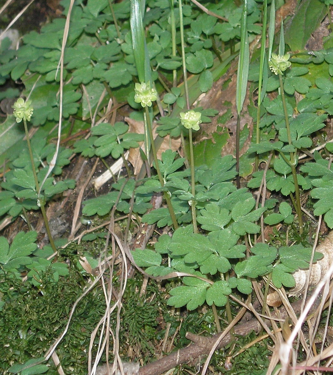 Adoxa moschatellina L. 1753, in woods of Western Serbia